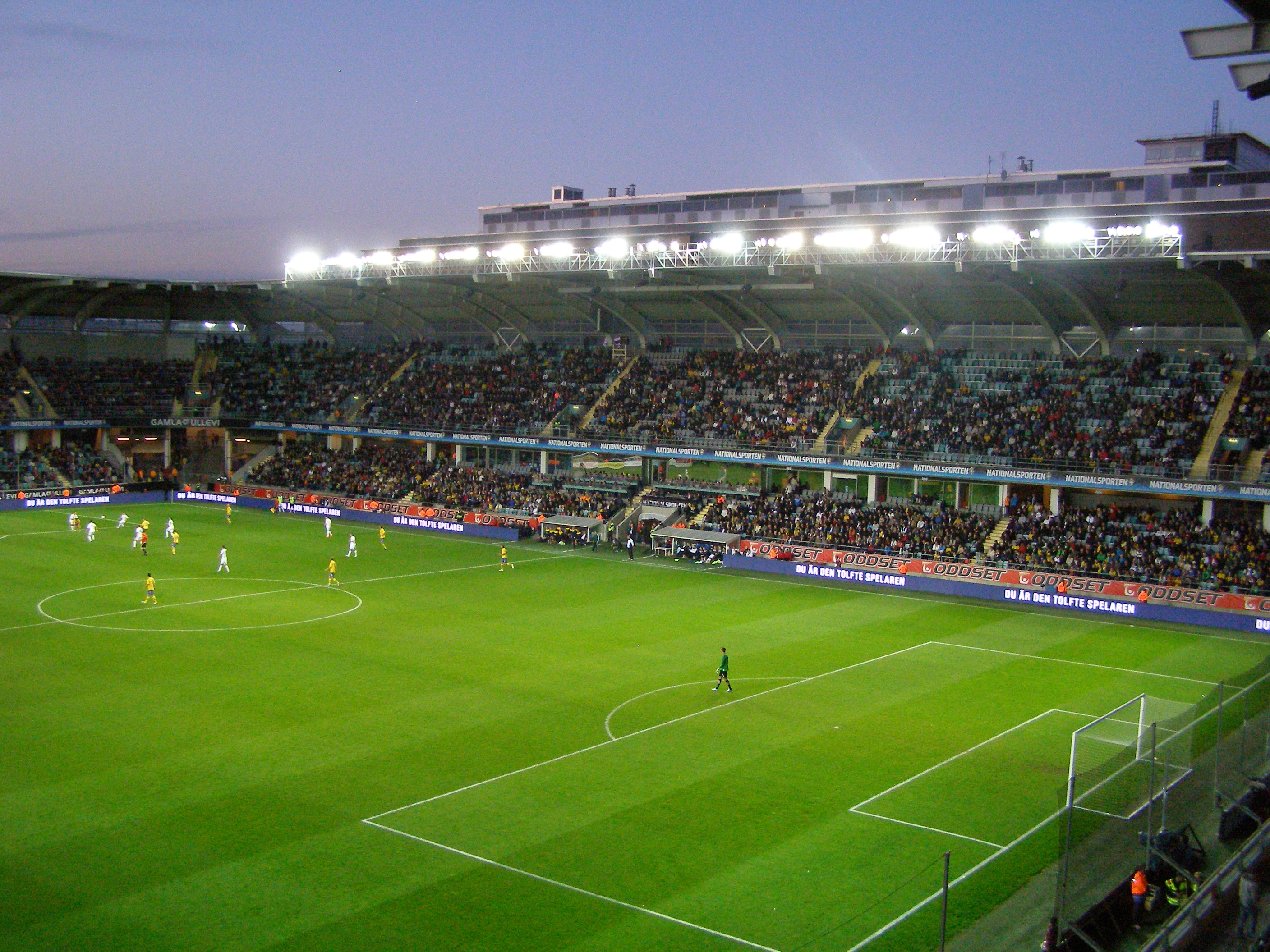 Gothenburg - Gamla Ullevi - Sweden-Iceland friendly